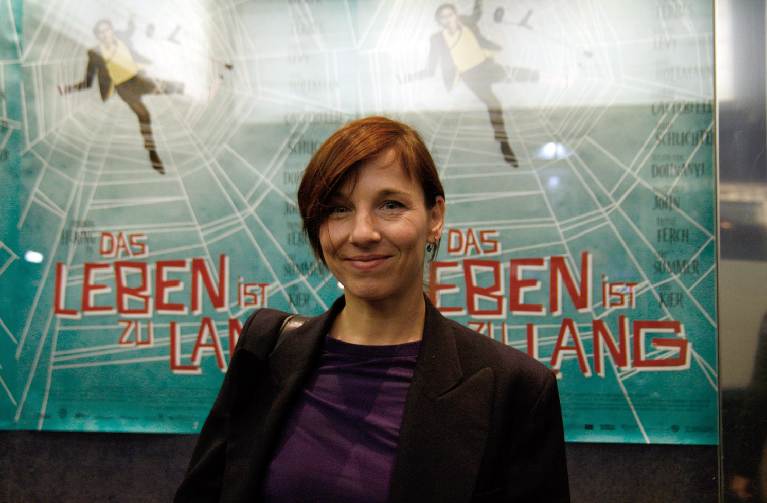 Meret Becker at the Austrian premiere of the movie Das Leben ist zu lang (Life is to long) at the Gartenbaukino in Vienna.